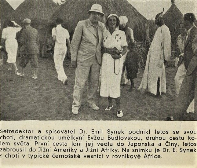 Emil Synek, Czech writer, with wife in Africa, 1938